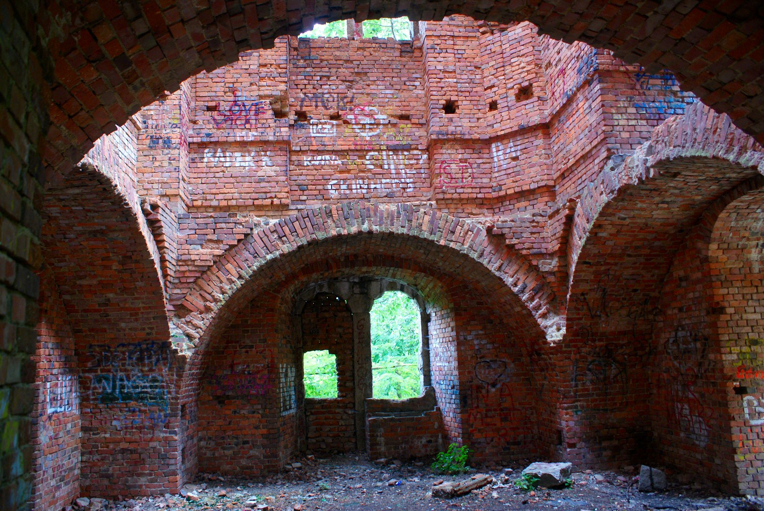 Bismarck Tower in Zary (Poland)